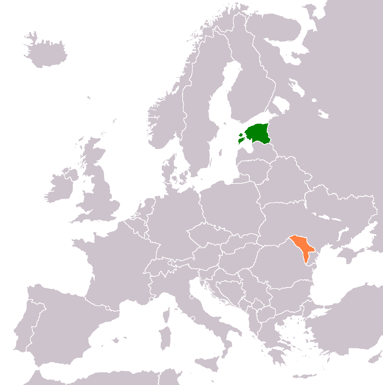 Estonia-Moldova locator map. I made this map out of a licence free blank map of Europe.